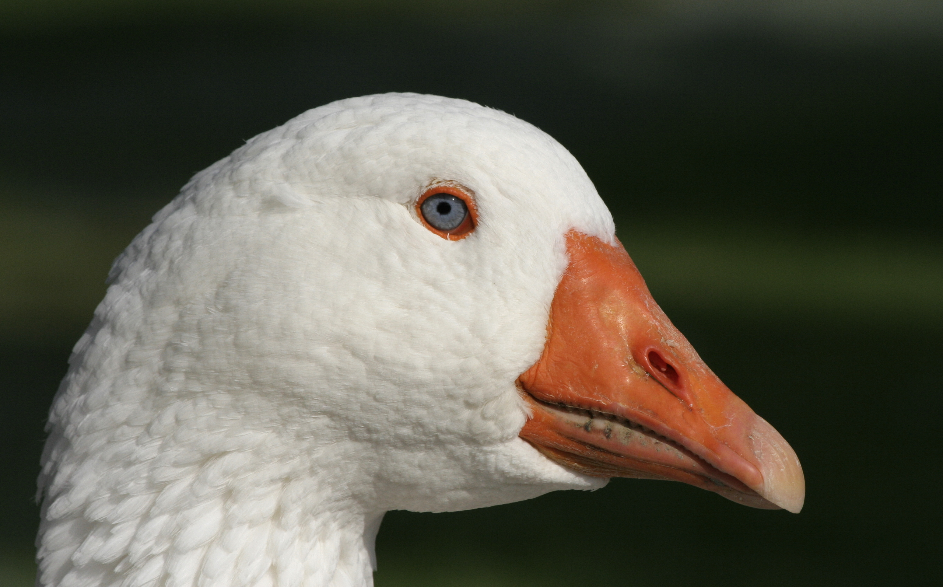 A portrait of a domesticated goose. Cagliari, Sardinia